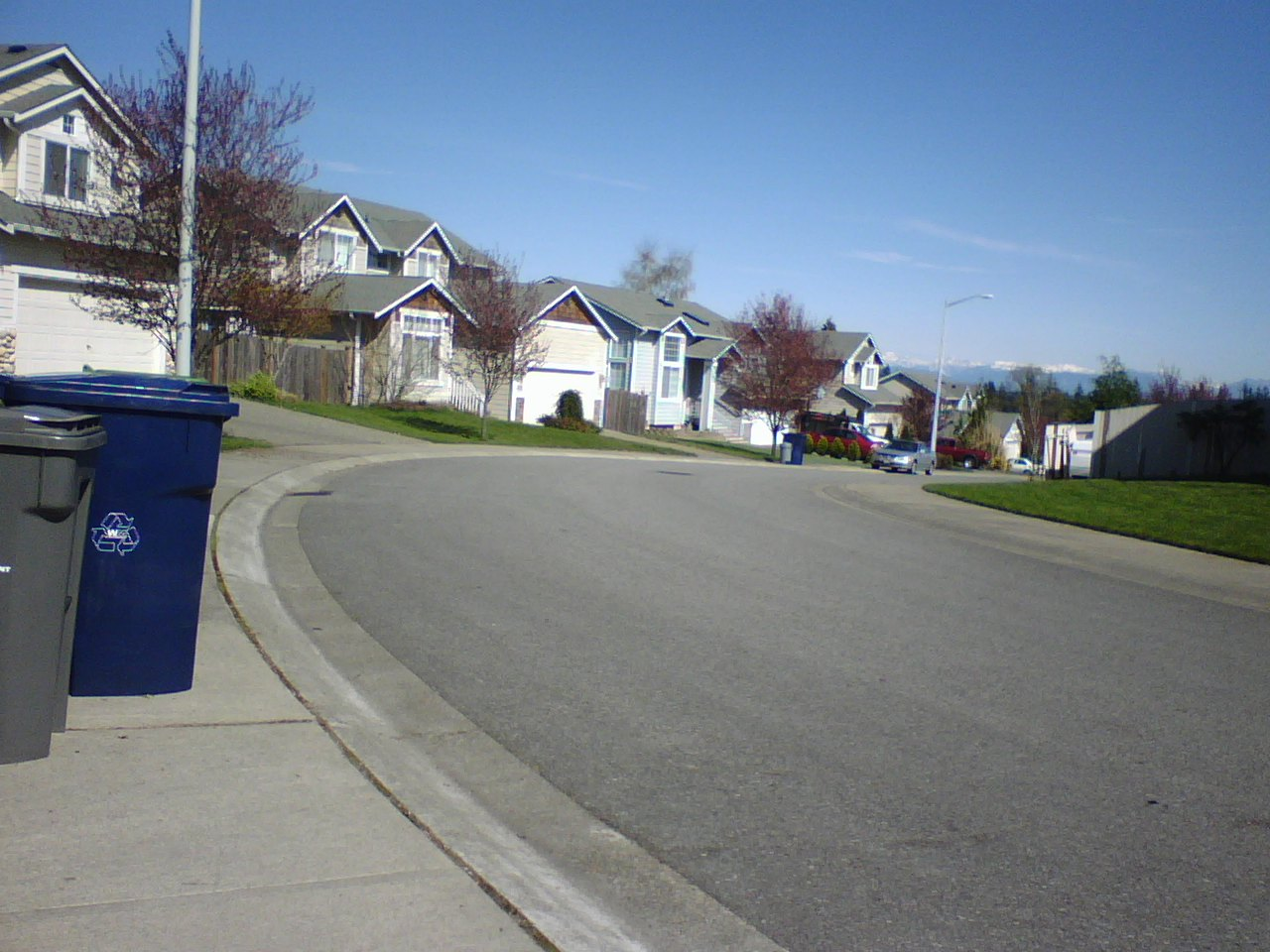 Picture Taken by Spencer Lowe 167th ST SW, Lynnwood WA, is a residential neighborhood. It is located near the locally well-known arterial road, 164th.